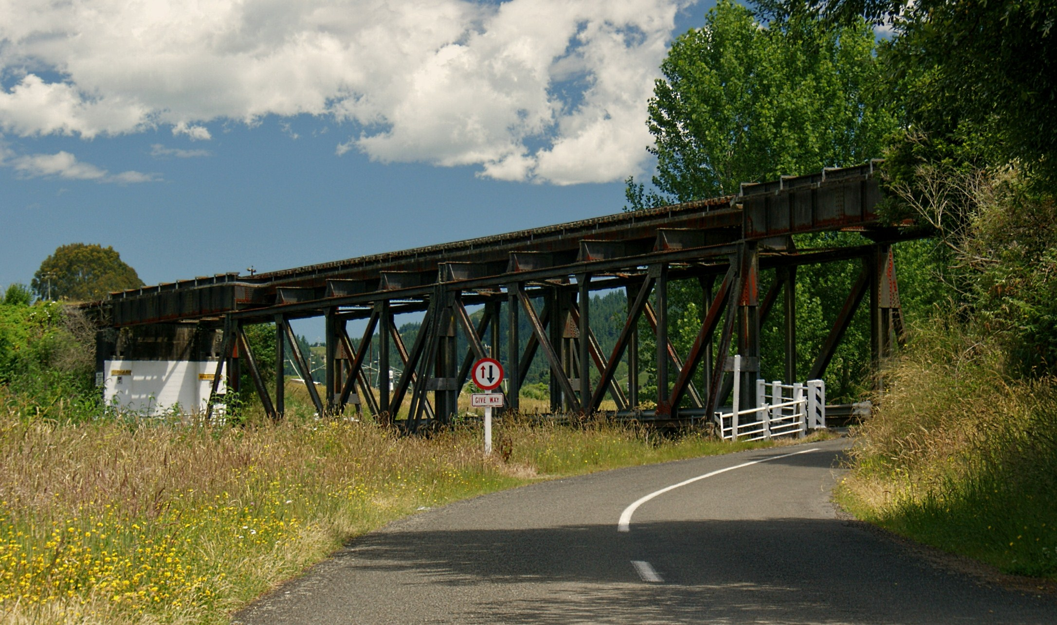 Okahukura Road/Rail Bridge: this is a rarity. There are perhaps no more than 8-10 combined bridges left in NZ. This one takes rail over the top, single-land road traffic underneath. Others have the road AND rail traffic on the same level - obviously one form of traffic gives way to the other...!!